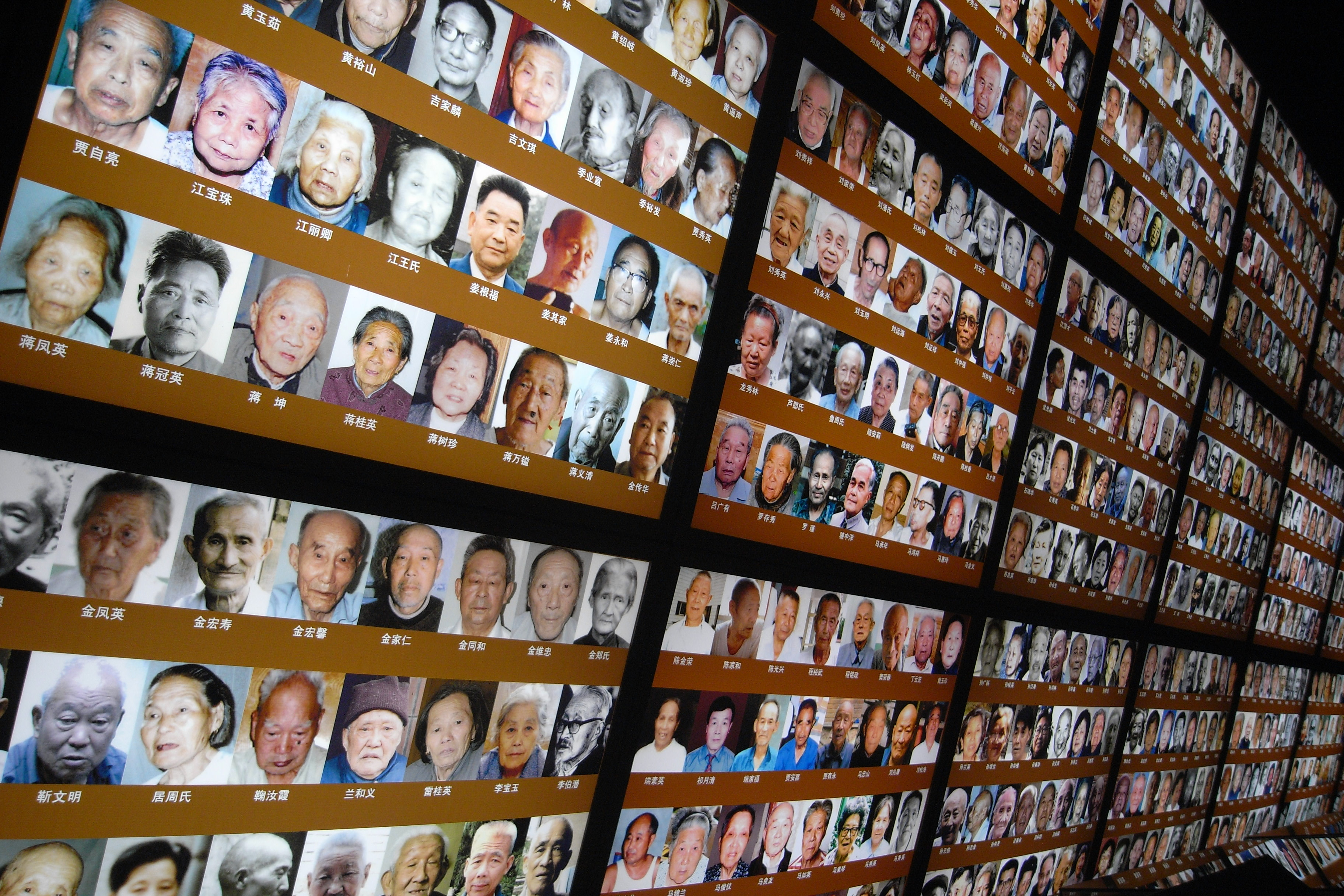 Exif_JPEG_PICTURE the memorial hall of the victims in nanjing massacre by japanese invaders nanjing jiangsu, china